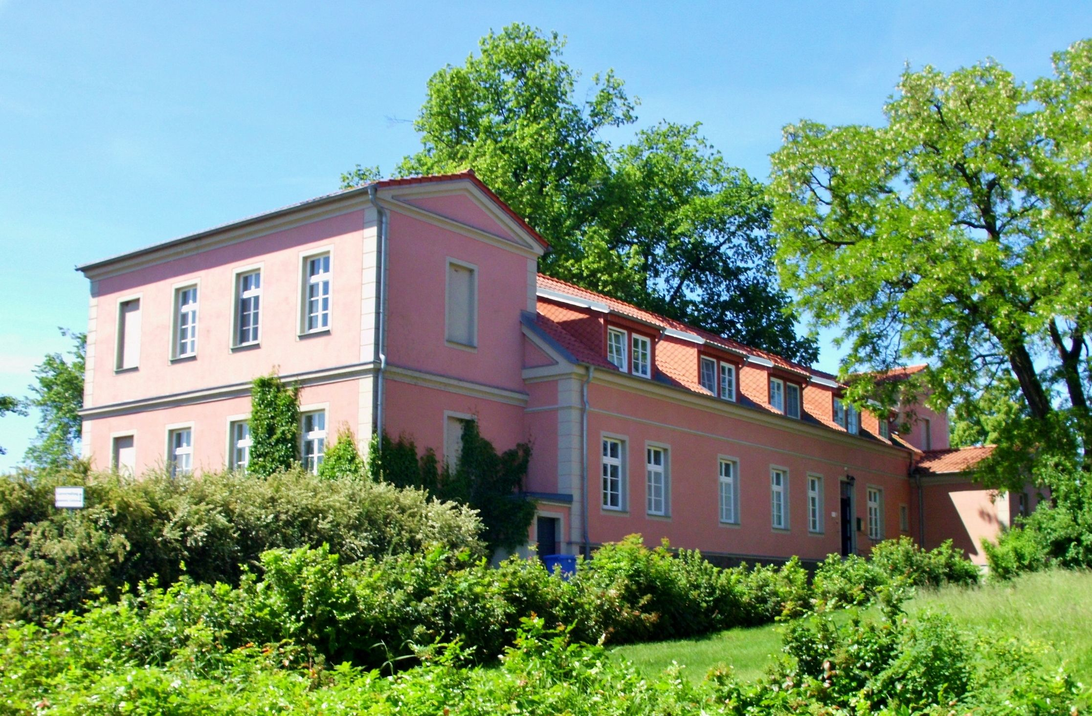 Commandery Lietzen - Administration Building